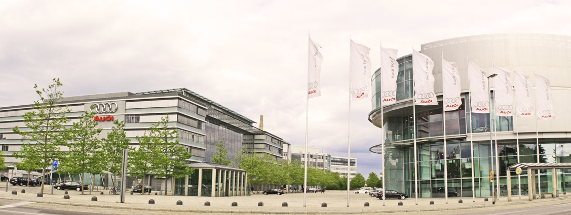 Entrance to the Audi plant/head office in Ingolstadt